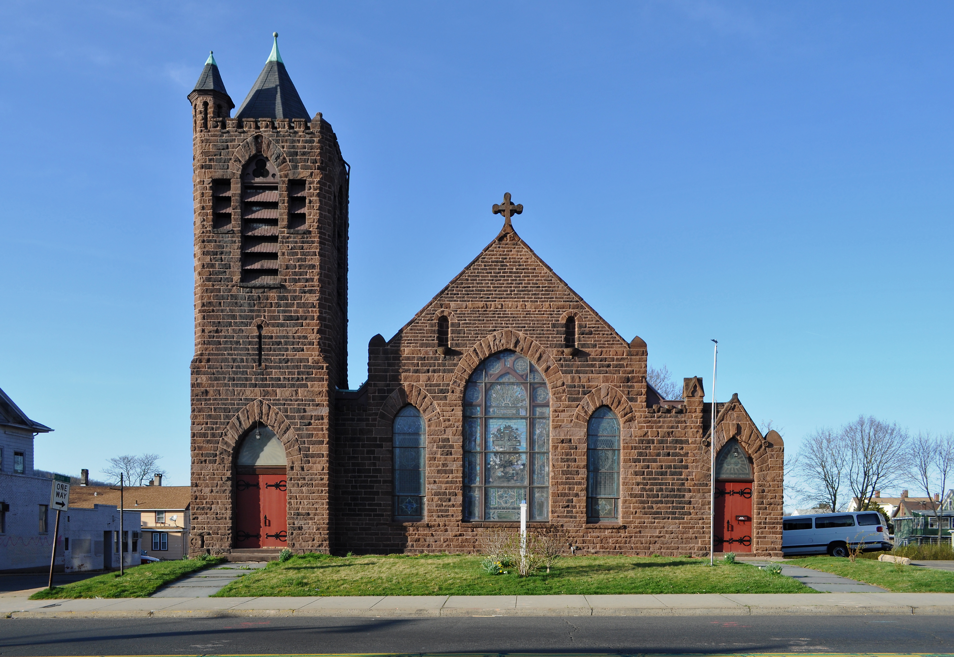 The former All Saints Church, 201-215 W. Main St., Meriden, Connecticut, USA. This former Episcopal church is now the Iglesia Roca de Salvación / Rock of Salvation Church, Assembly of Christian Churches.